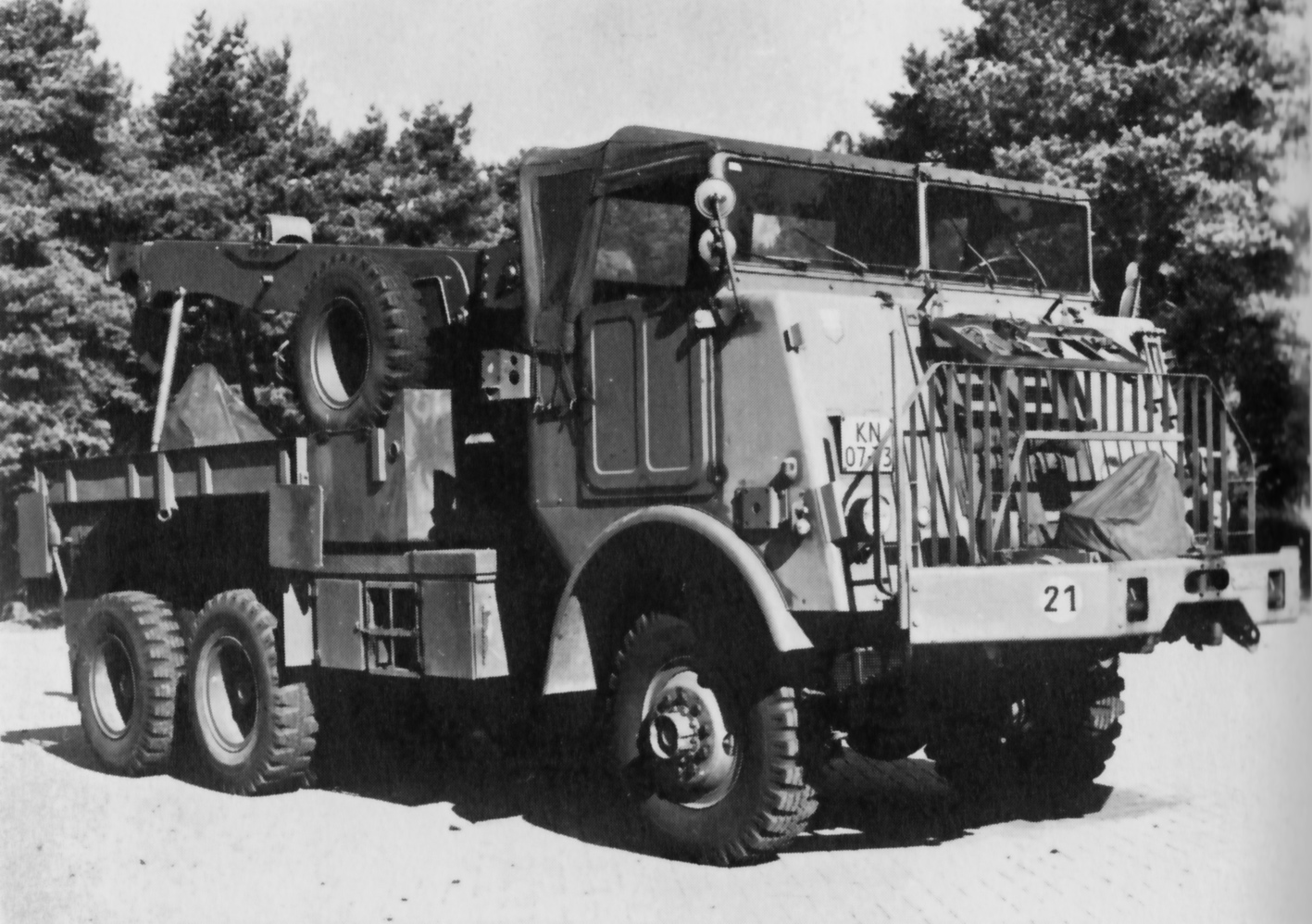 DAF YB 616 Heavy Wrecker Dutch Army.